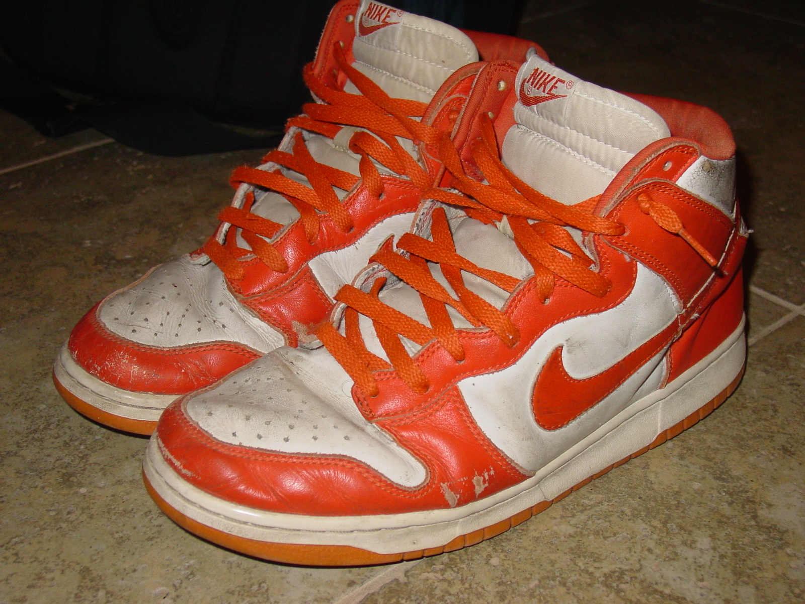 A pair of worn down 1998 re-release Hi-Top Dunks with orange-on-white Syracuse colorway